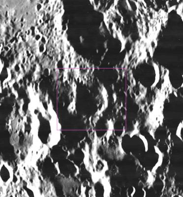 Annotated Lunar Orbiter V-H2-028 image from LPI.